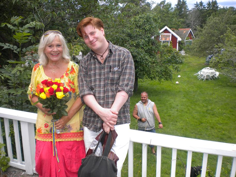 Christina Schollin & Emil Eikner at Schollin's residence in the islands east of StockholmPlace: North Lagnö, Sweden